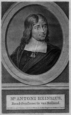 Anthonie (or Antonius) Heinsius (1641-1720) Dutch statesman.